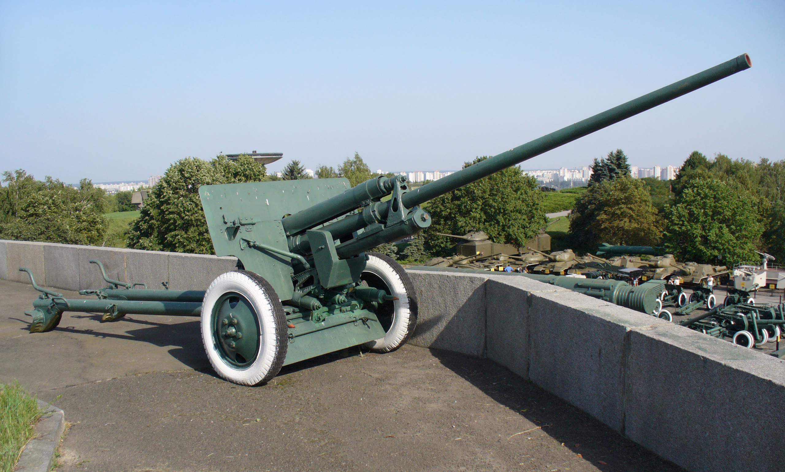 The ZiS-2 was a Soviet 57-mm anti-tank gun used during World War II. Ukraine, Kiev